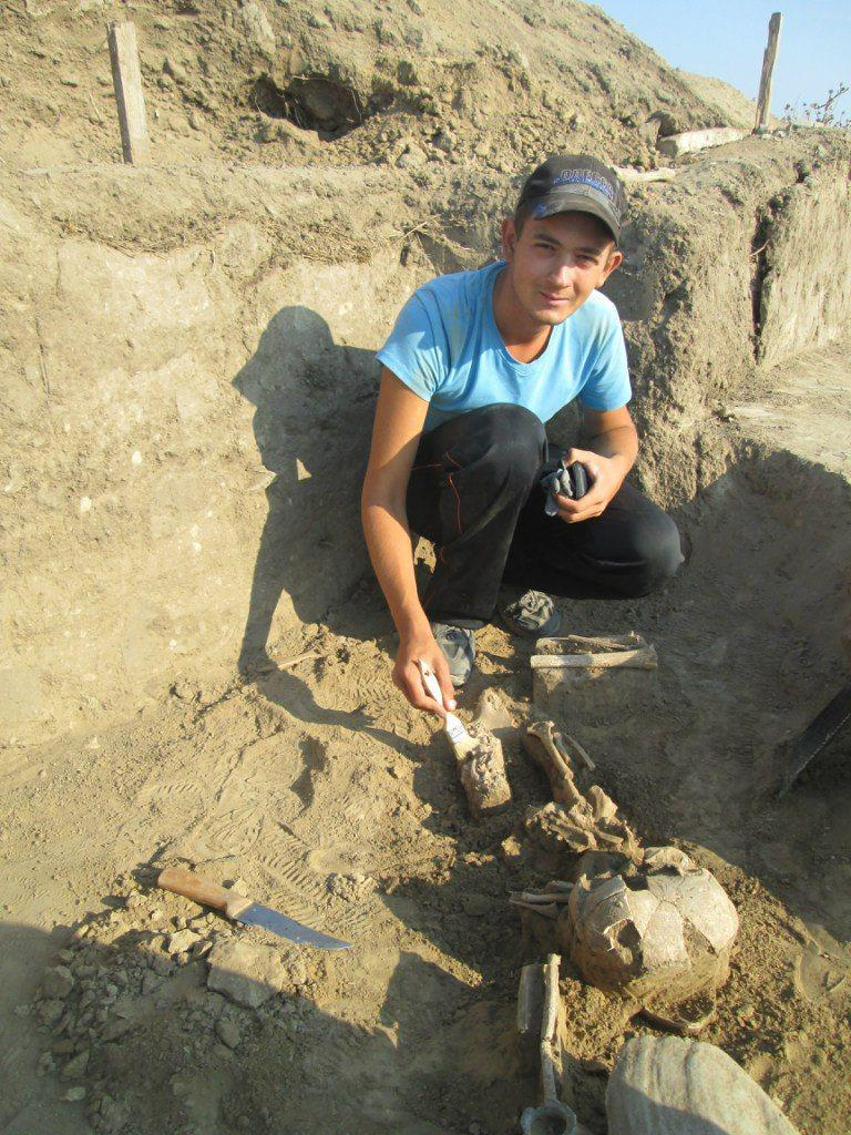 Archaeological expedition of the Odessa Archaeological Museum of the National Academy of Sciences of Ukraine, which participated in 2015, in the village of Orlovka, Reni District, Odessa region. The Thracian burial ground Kartal was excavated. Several skeletons similar to the photo have been identified.